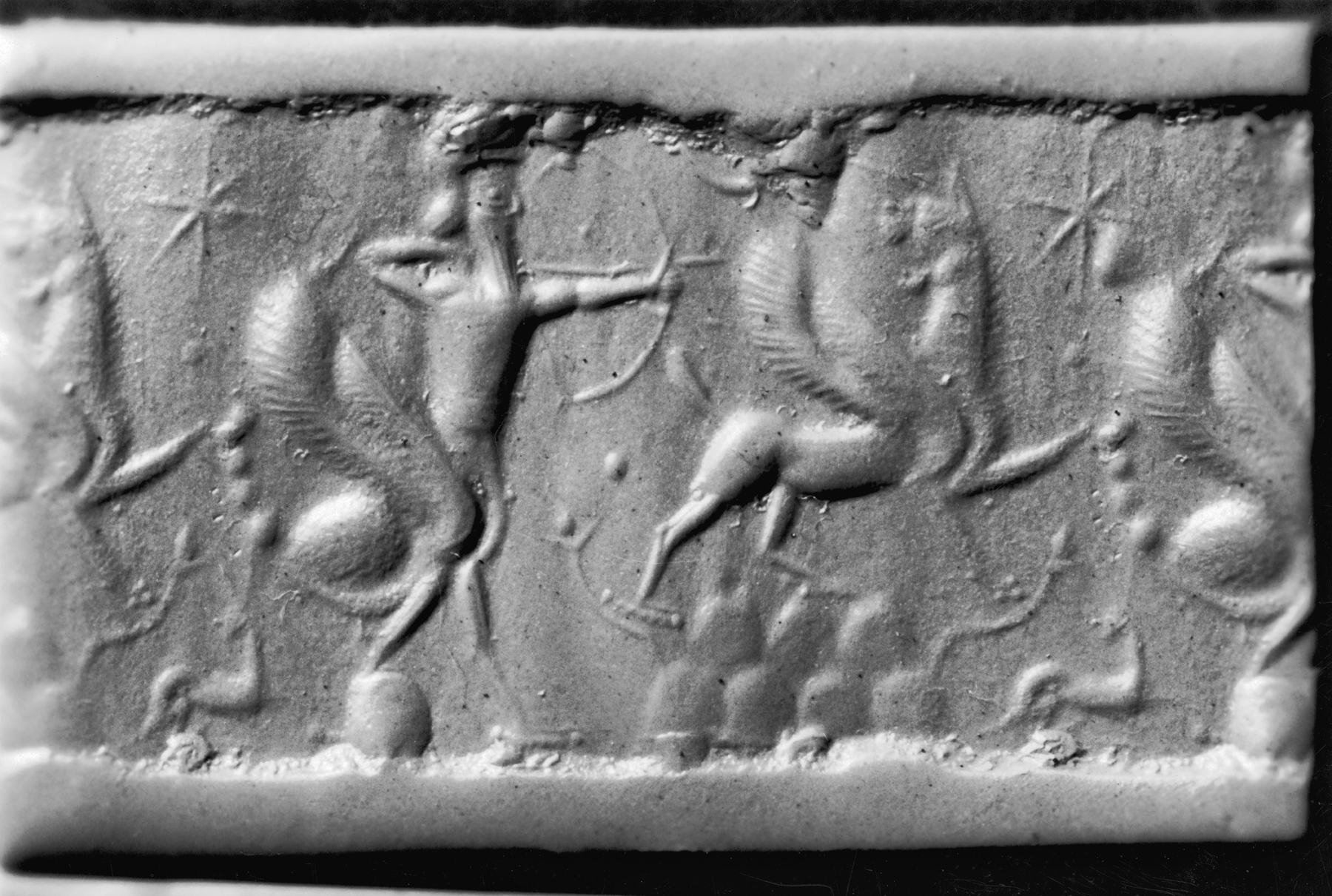 During the Middle Assyrian period, seal carvers expanded their repertoire of fantastic and mythical creatures. On this seal, a bird-man with a scorpion tail aims a bow and arrow at a winged lion-griffin standing on a hillock.